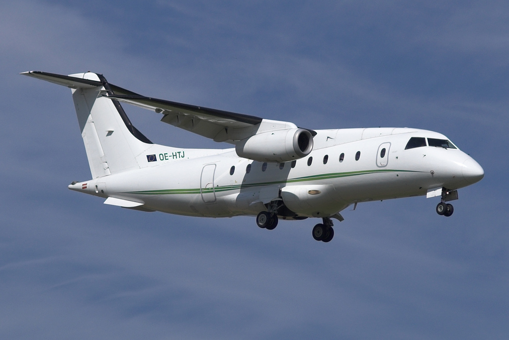 Tyrolean Jet Services Do-328-300 OE-HTJ